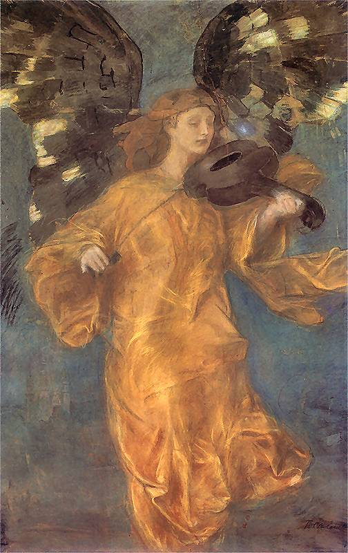 Teodor Axentowicz: Golden angel